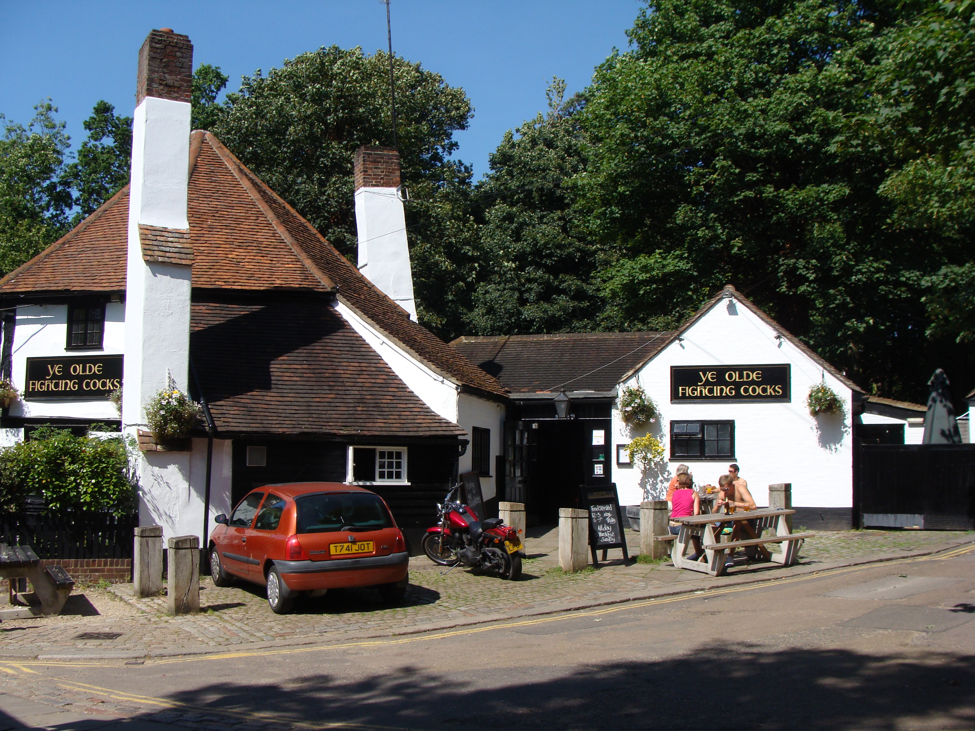 Ye Olde Fighting Cocks, St Albans. A pub that claims to be the oldest in Britain.